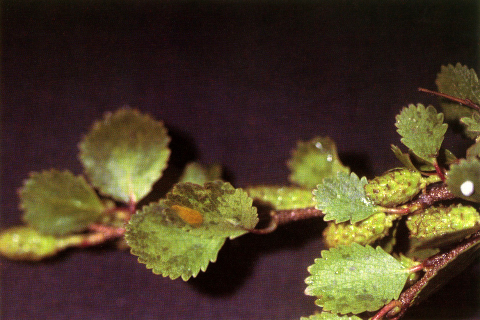 Betula glandulosa Michx. (resin birch)